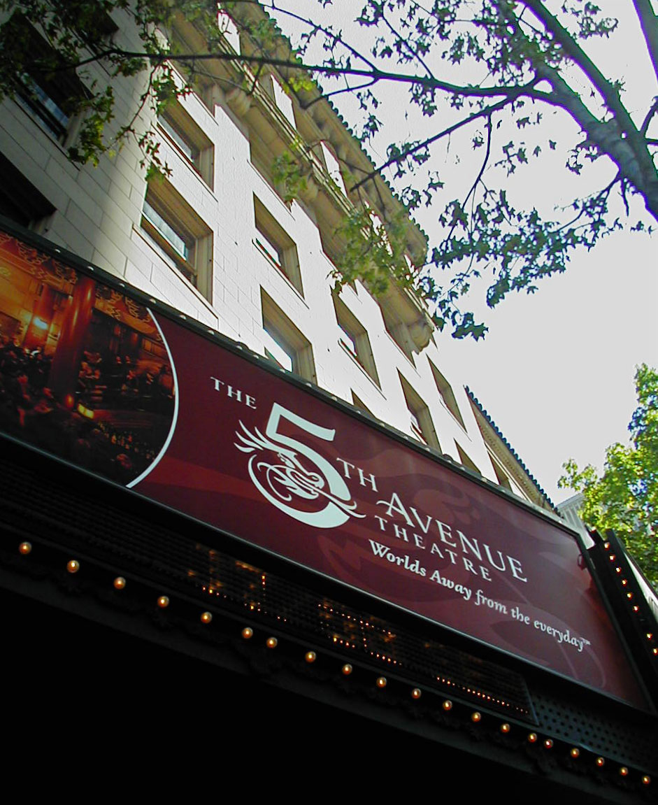 Marquee of the 5th Avenue Theatre with facade of Skinner Building above. Seattle, Washington.